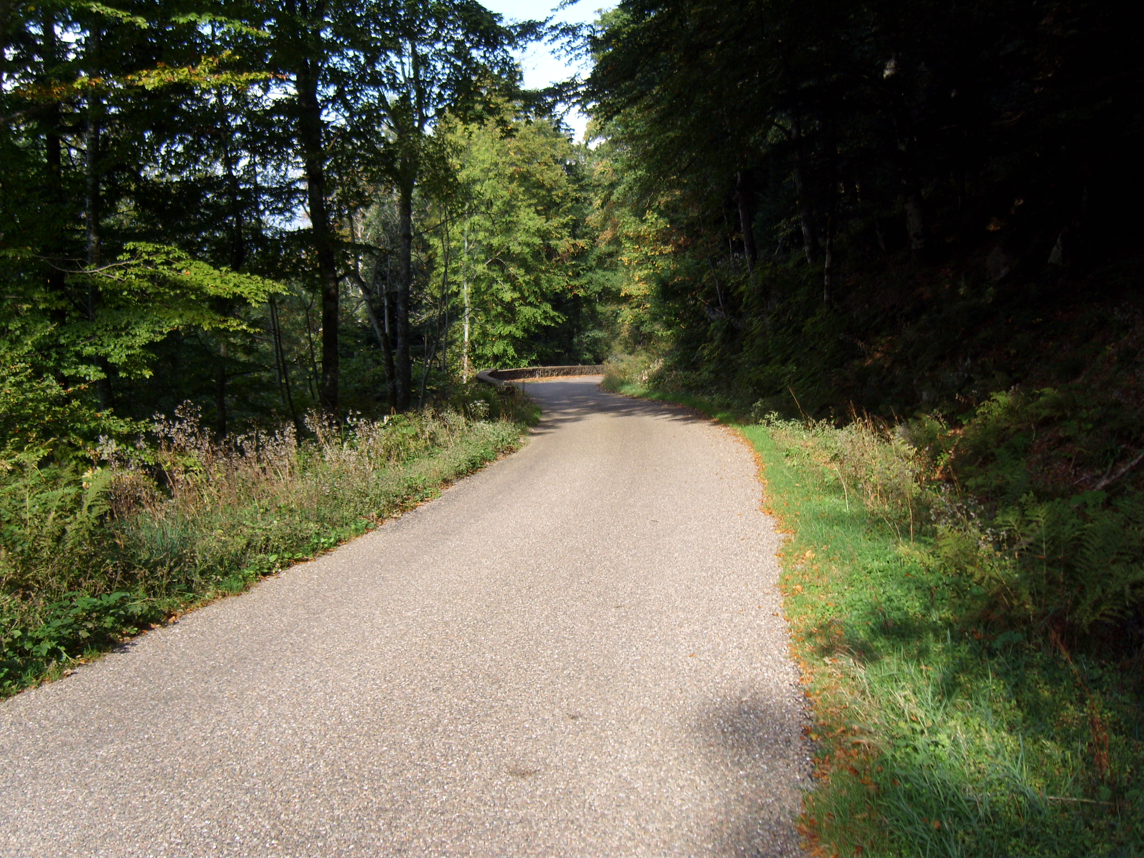 The Route des Forts in the Ballon de Servance